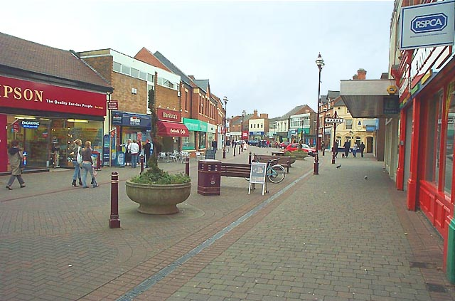 High Street, Long Eaton. Long Eaton is mentioned in the Domesday Book as Aitone.